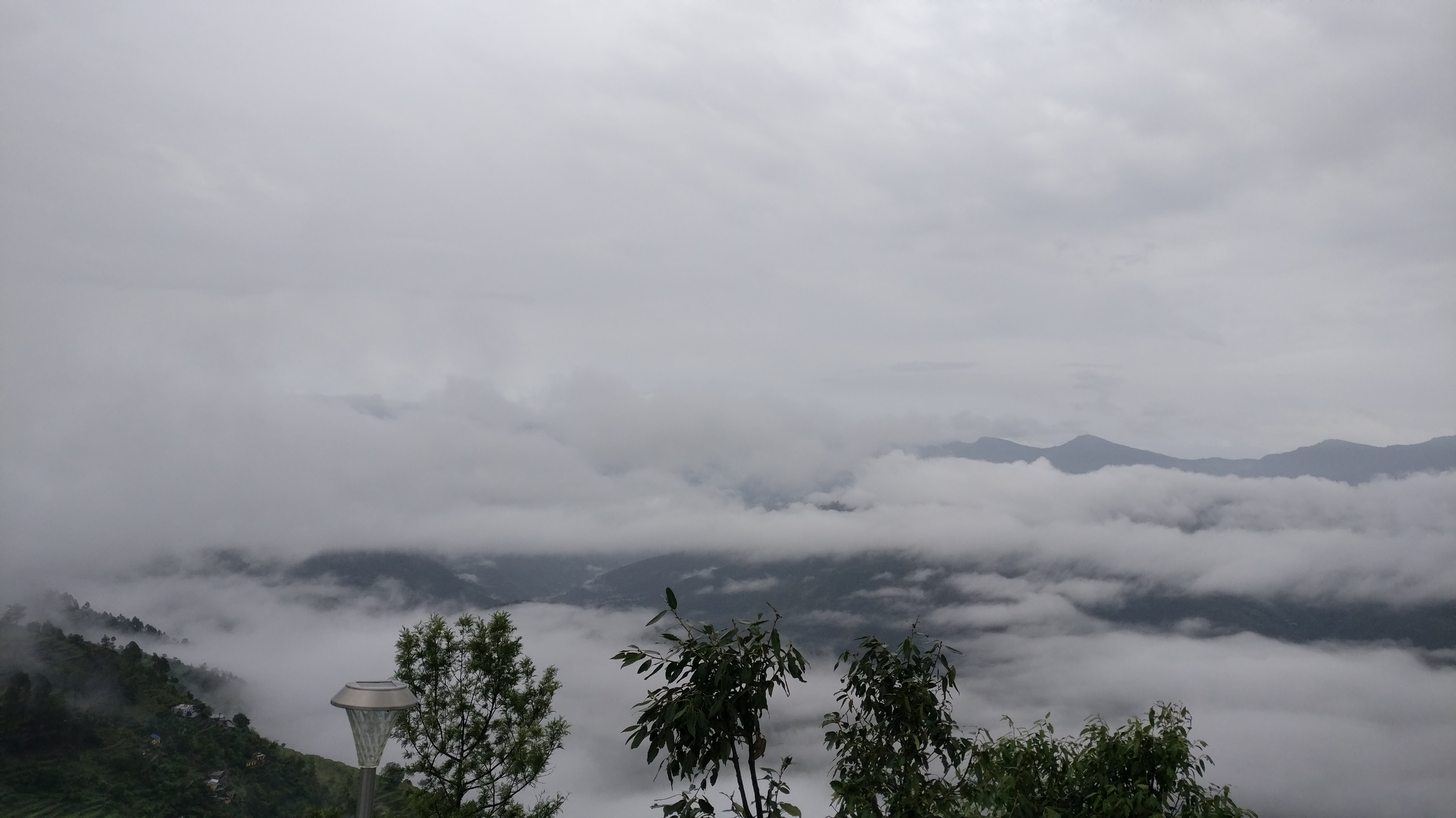 Clouds beneath